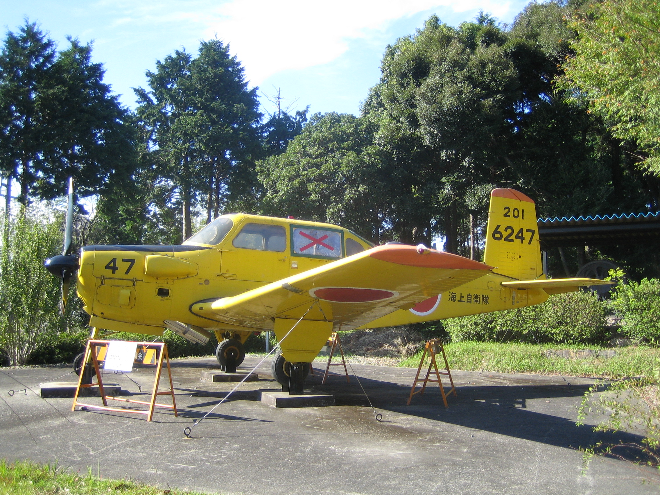 Trainer KM-2, in Kota, Aichi, Japan